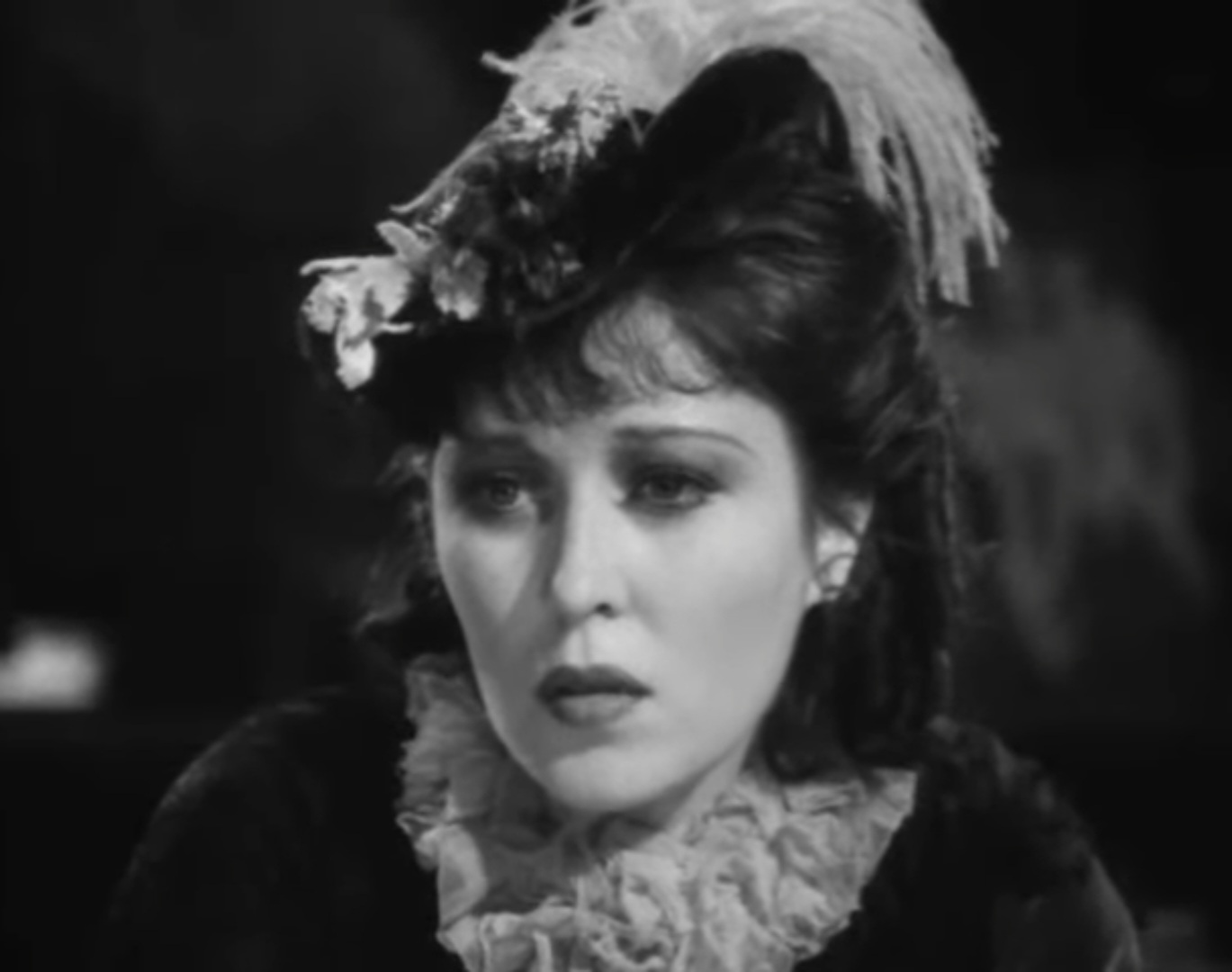 Erin O'Brien-Moore in The Life of Emile Zola as Nana